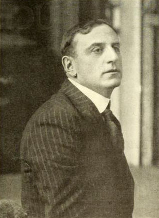 Extracted from advertisement in Moving Picture World, May 1919